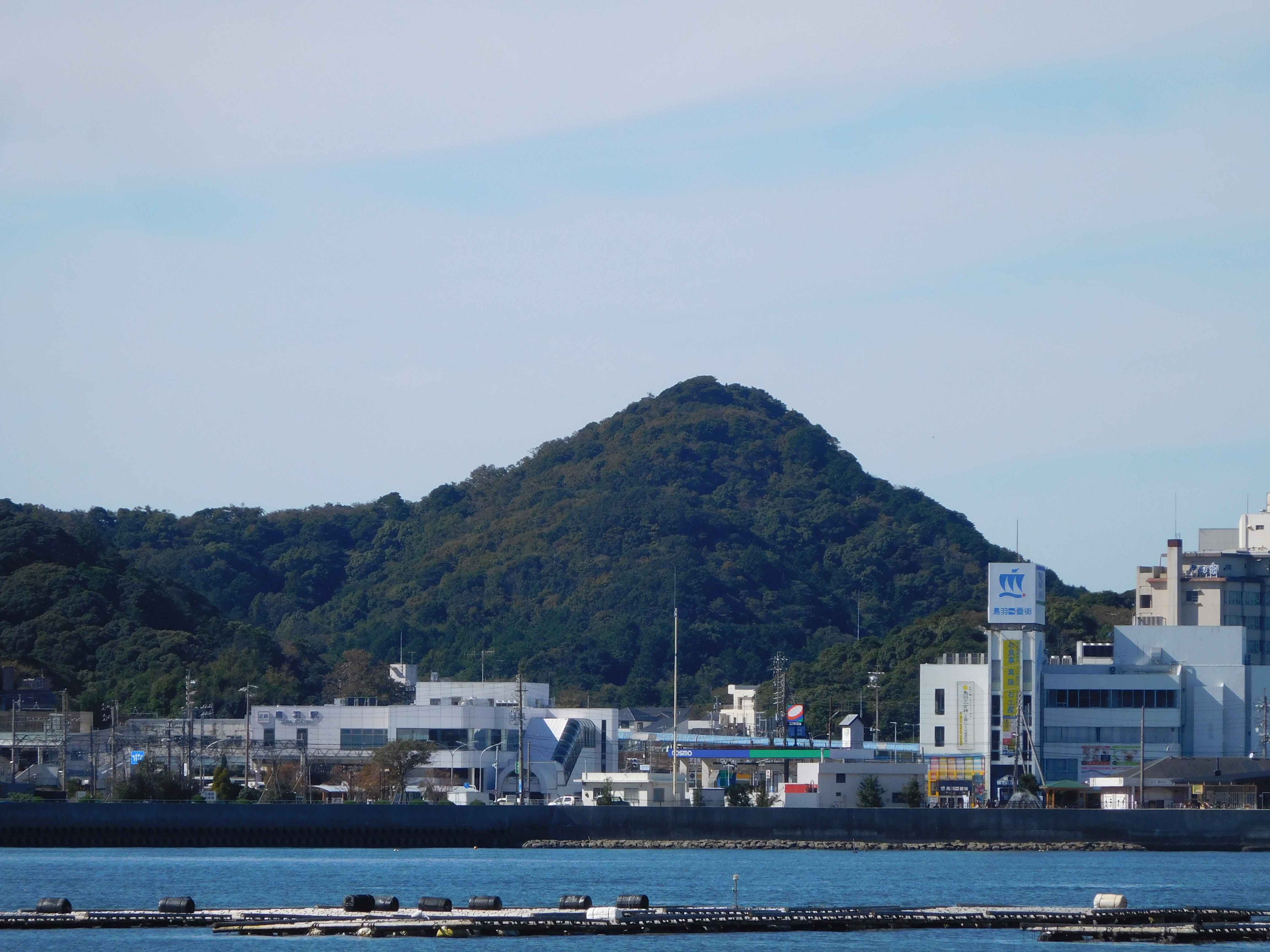 This is Mt. Hiyori in Toba, Mie, Japan. I took this photo from Sakate Island.